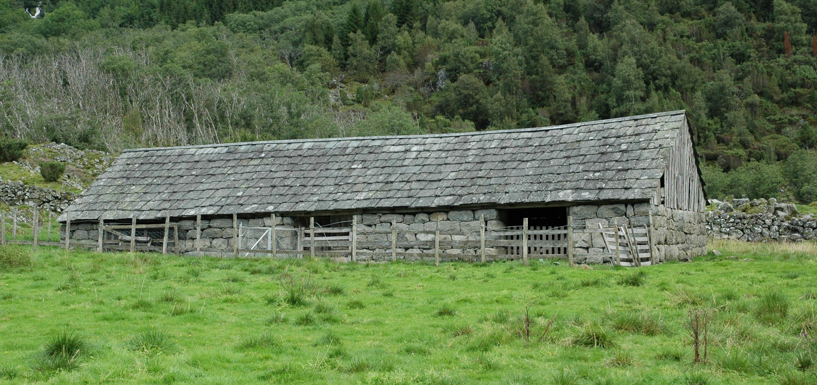 Old building for housing sheep in Rosendal, Norway. My own picture, Kjetil Lenes